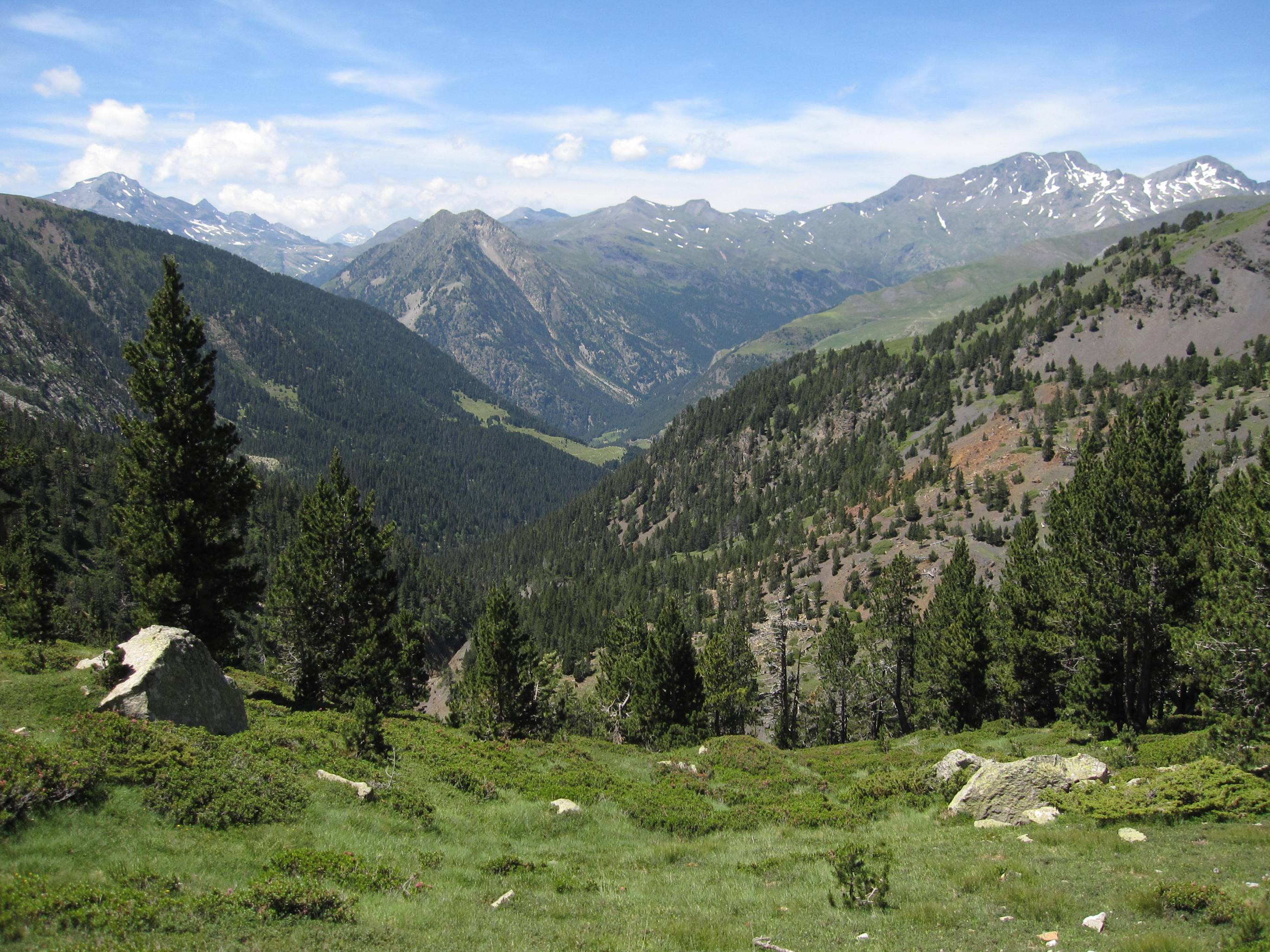 High area of the Chistau valley (Spanish Pyrenees). Trees are Pinus mugo subsp. uncinata.